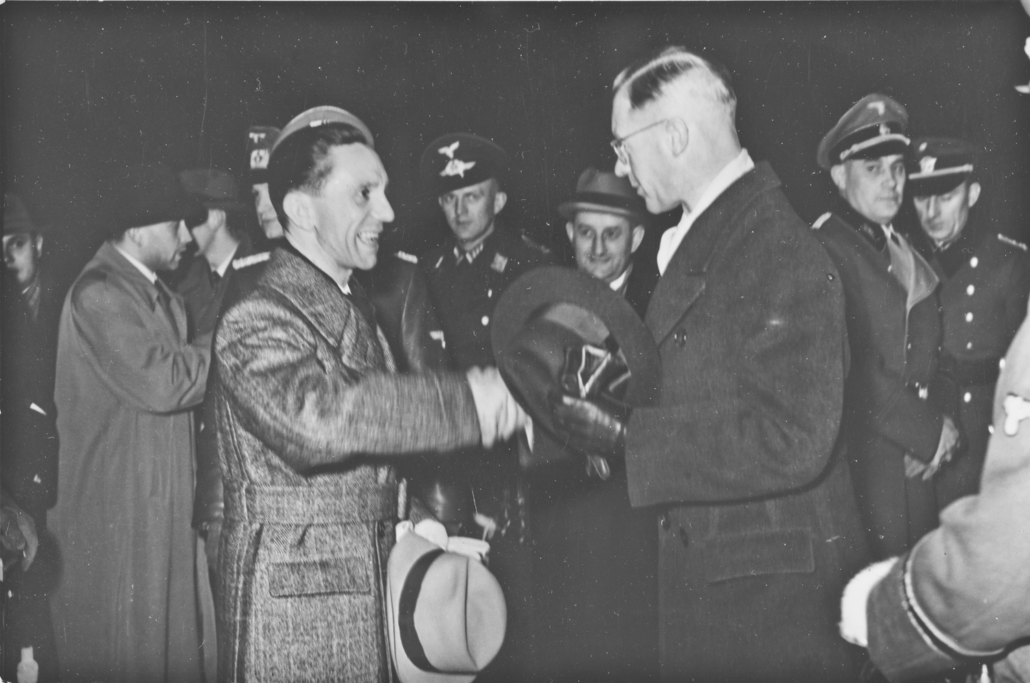 Joseph Goebbels greets reichkommissar Josef Terboven during his visit in Oslo at the turn of month November/December 1940.